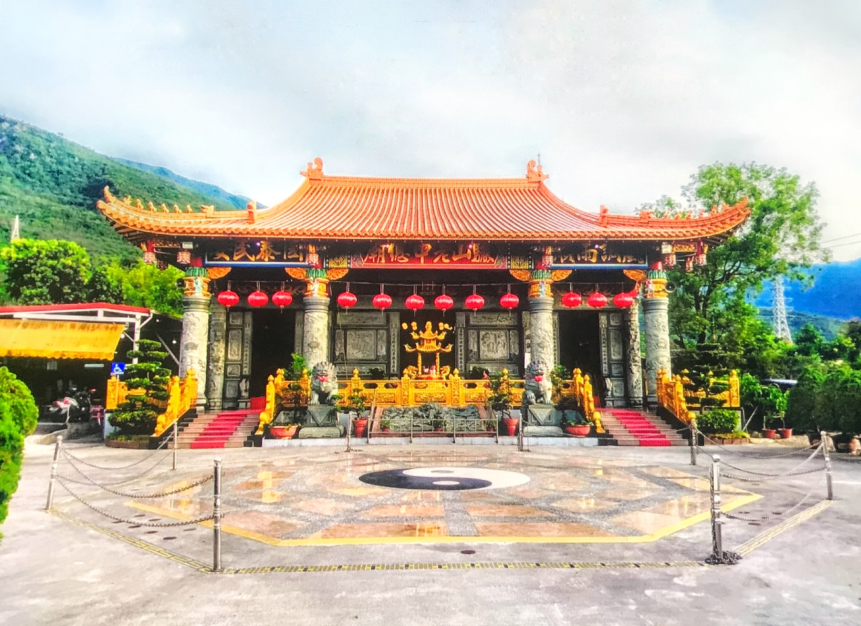 Lishan Laomu Temple in Taiwan